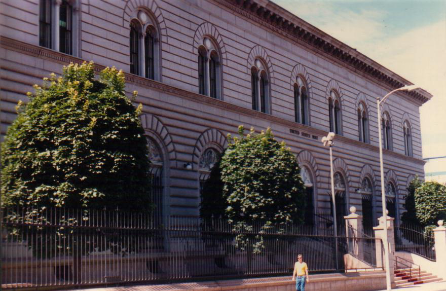 The Denver Mint in Denver, Colorado, United States.